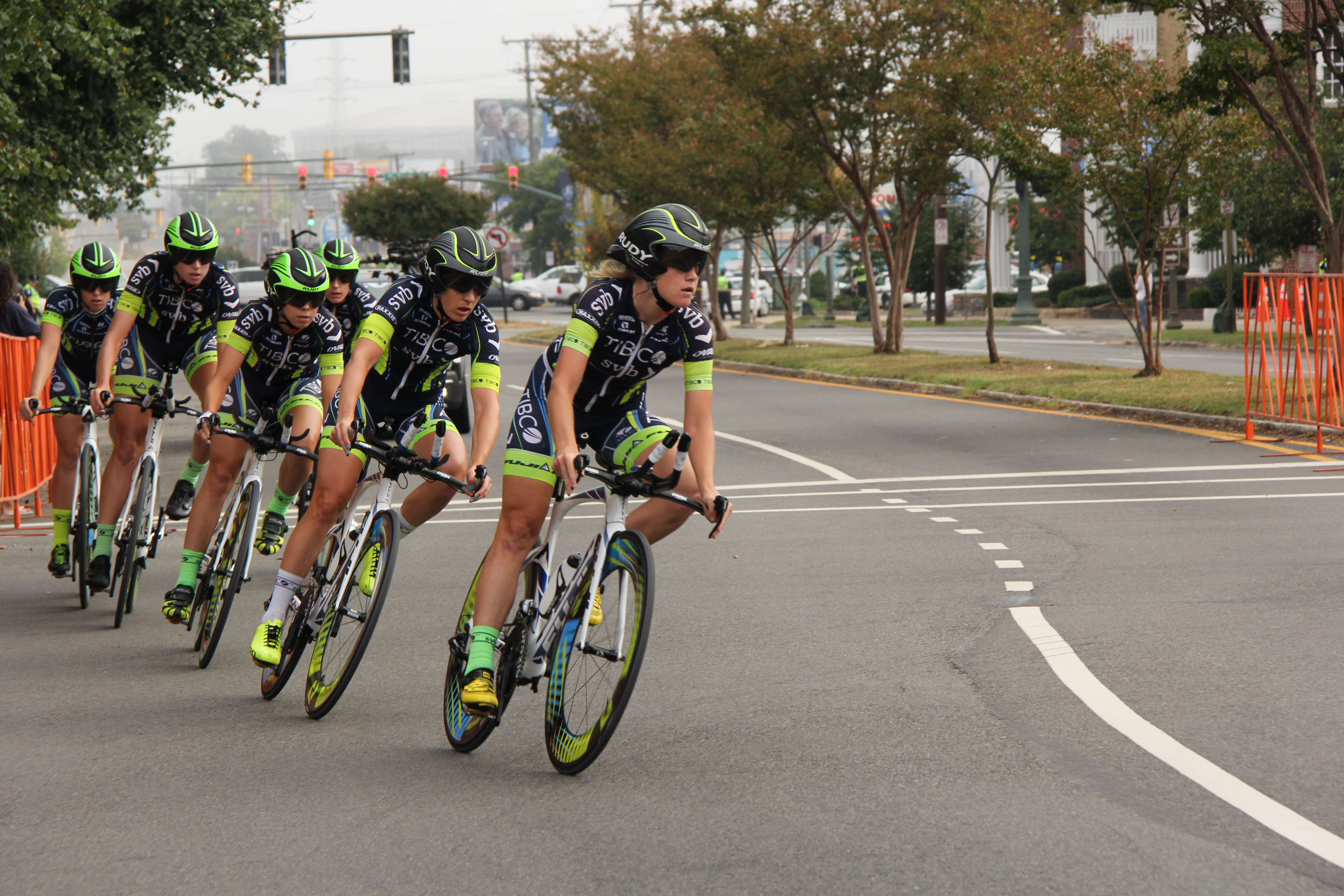 The world has come to Richmond. Welcome! Bienvenidos! Willkommen! 2015 UCI Road World Championships, in Richmond, United States